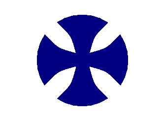 Union Army XVI Corps, Military Division of West Mississippi, 3rd Division Badge